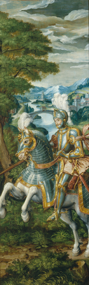 Saint George and the Dragon